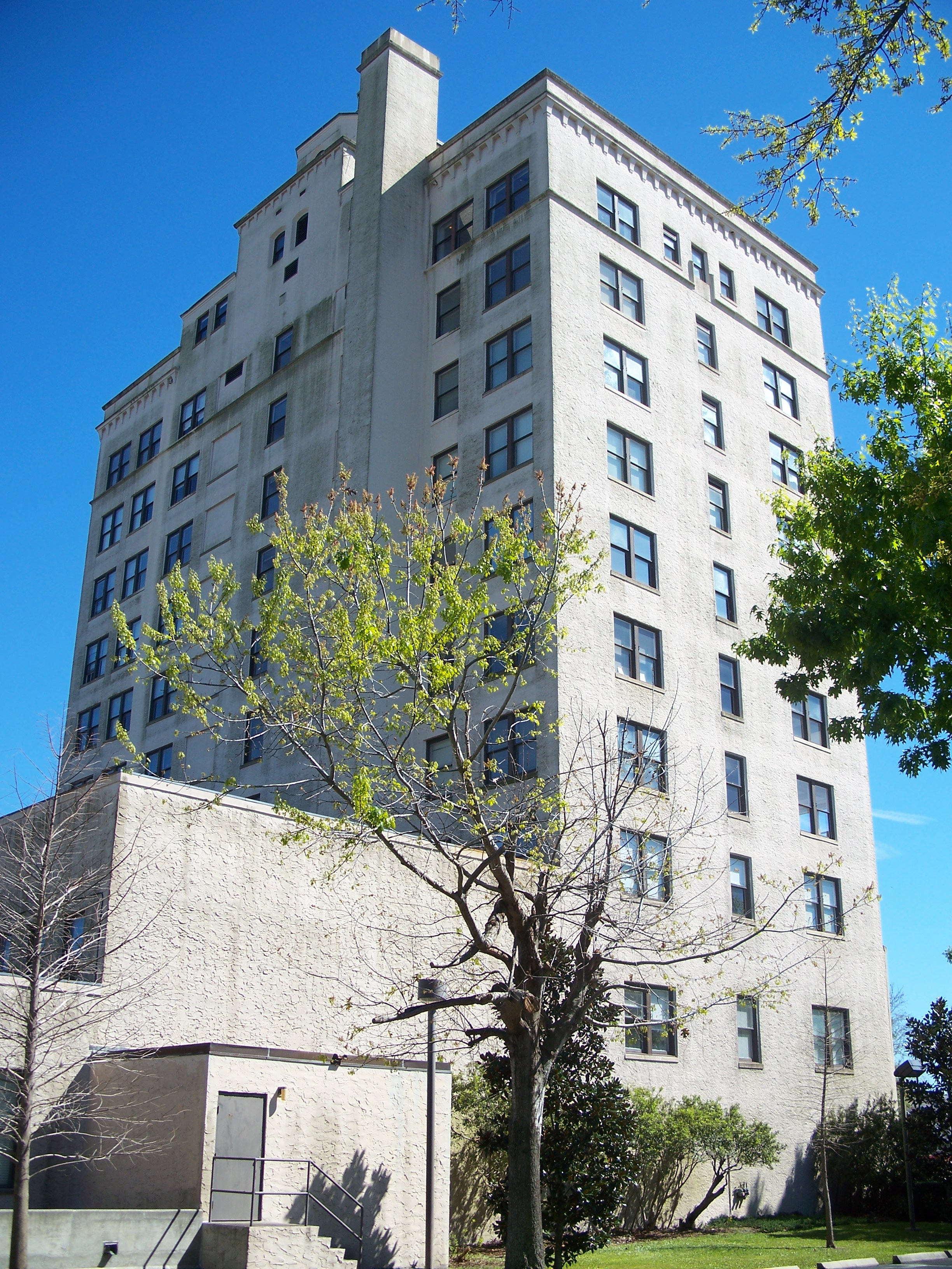 Seagle Building in Gainesville, Florida (formerly Hotel Kelley)